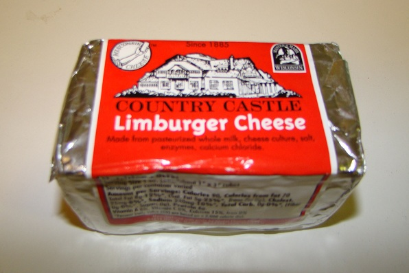 A piece of Limburger Cheese.